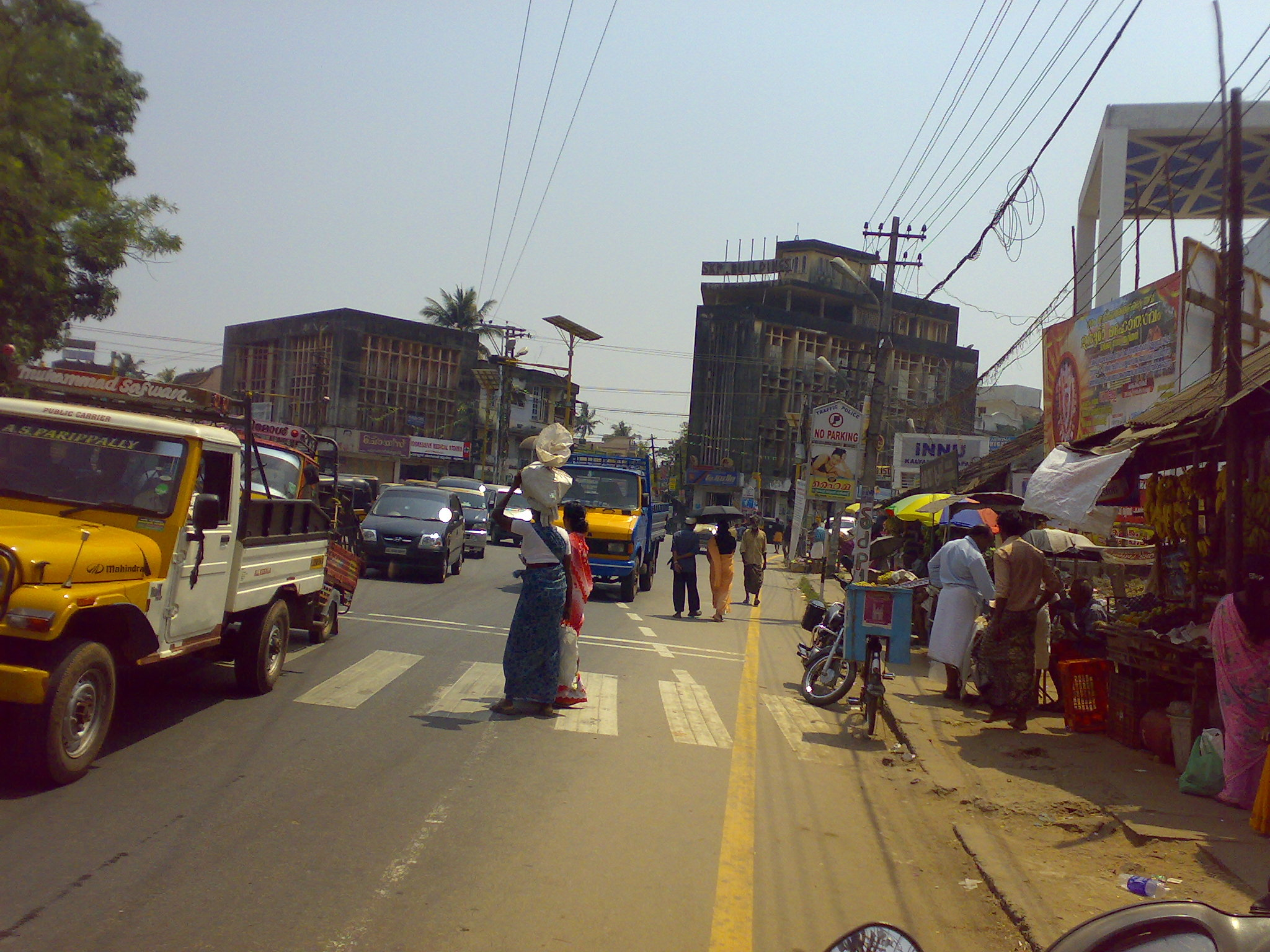 Attingal Kacheri Junction